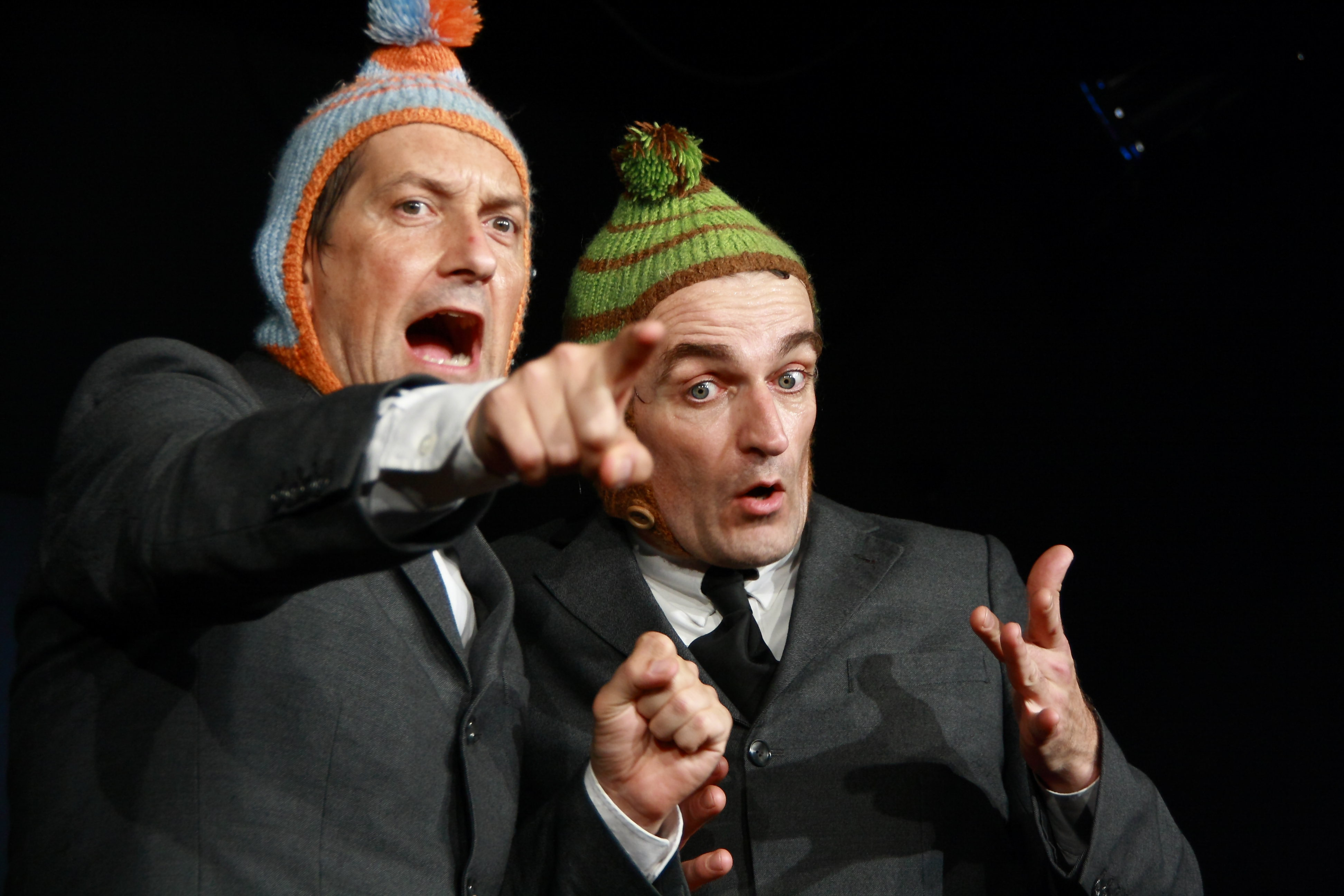 Ulan & Bator at Kult, Niederstetten.